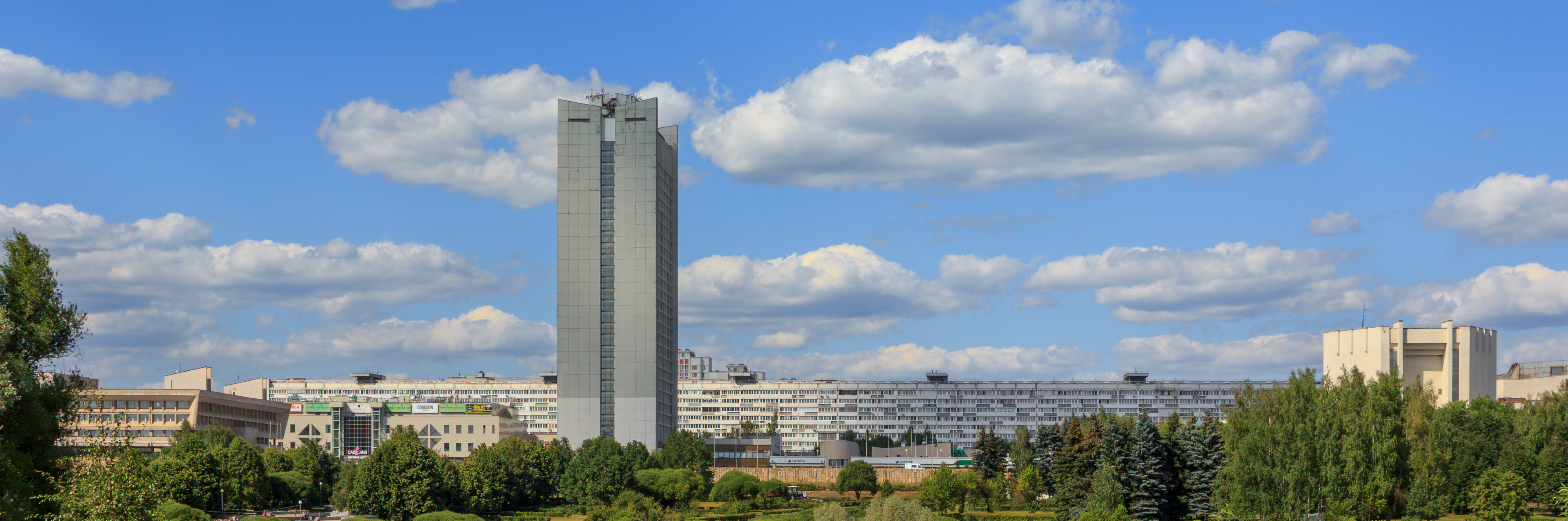 Park Pobedy (Russian: Victory Park) in Zelenograd, Russia